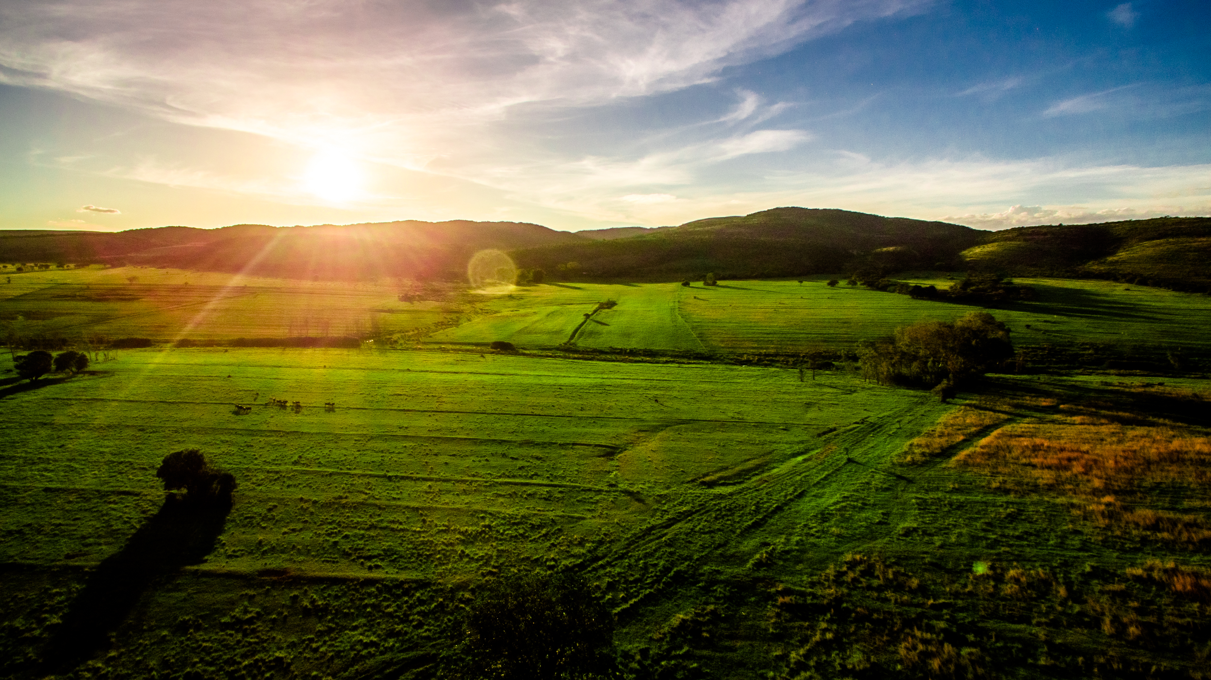 Sundown over one of the many beautiful mountain ranges found in Limpopo, South Africa. Limpopo is known for its vast bushveld and wildlife reserves and if you look closely you will see some cattle grazing freely.